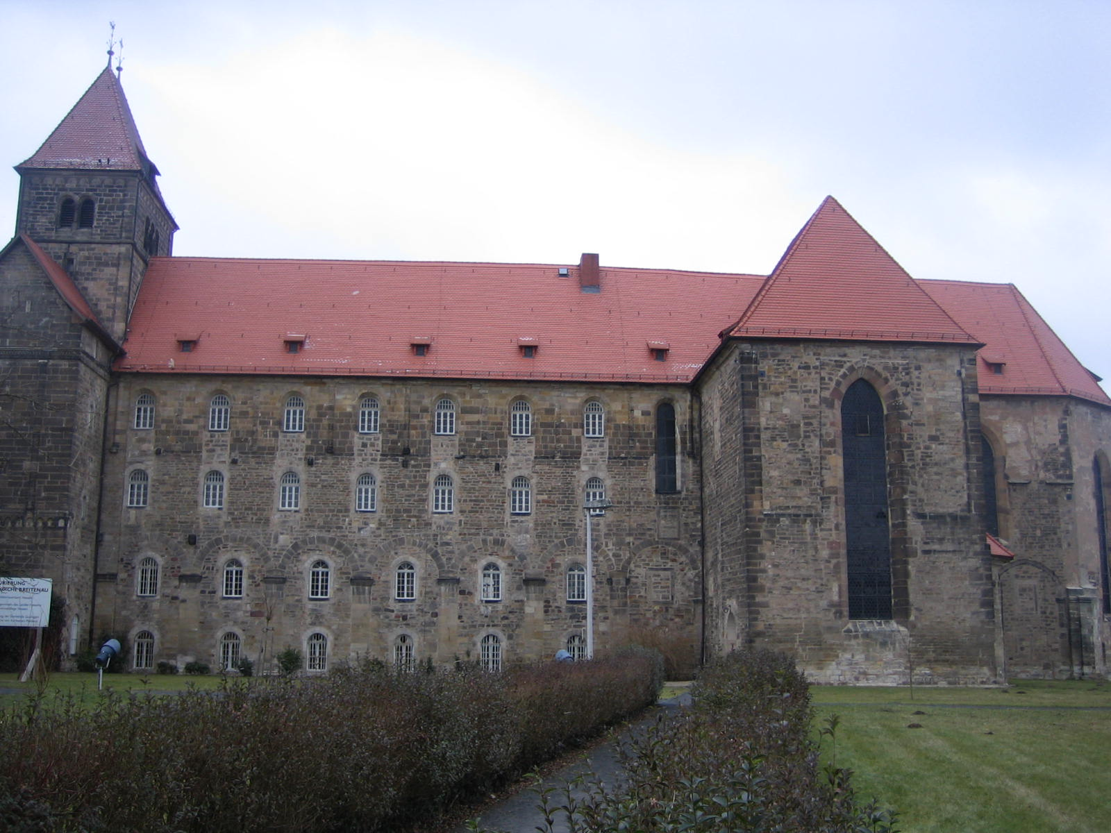 View of Breitenau Abbey, Germany